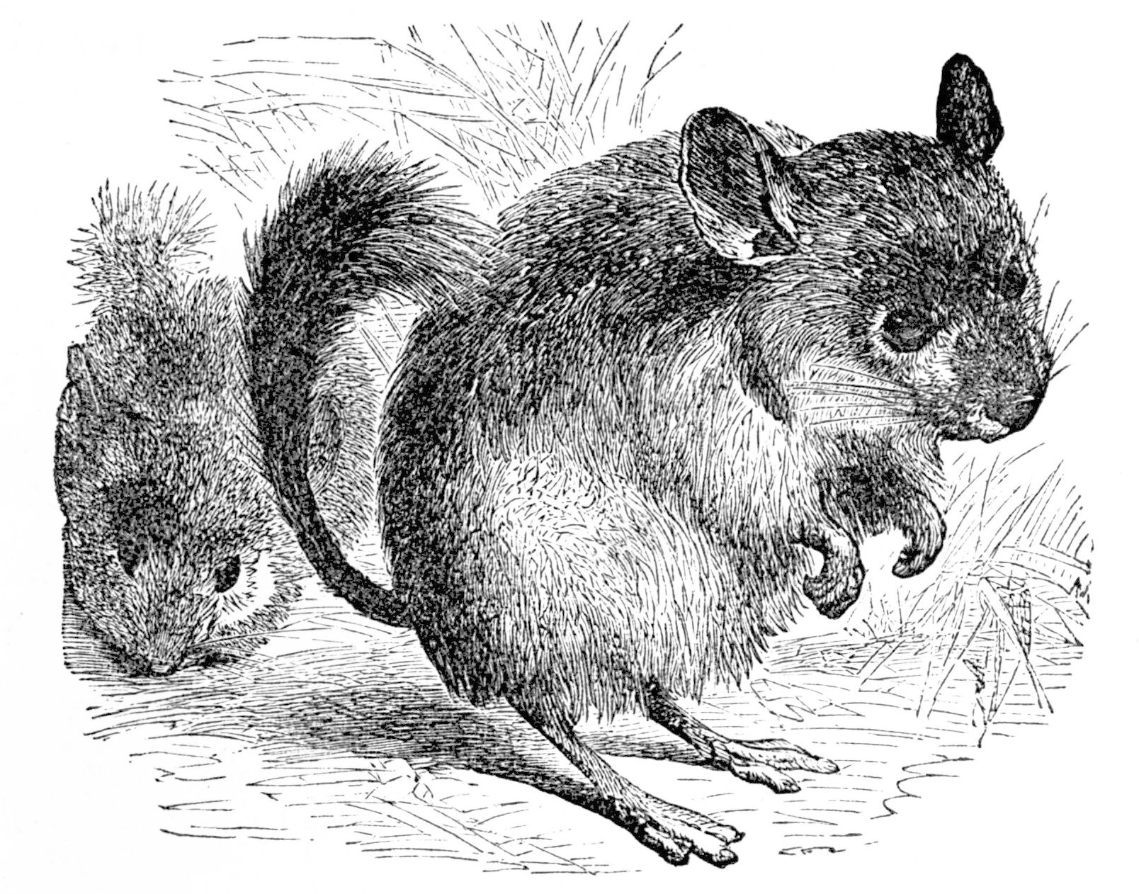 Chinchilla